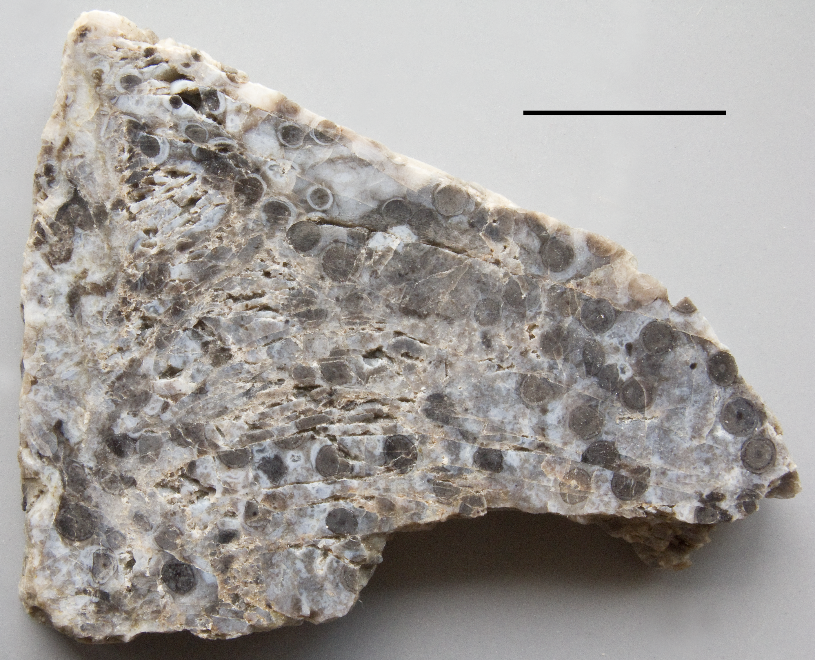 Surface view of a polished piece of Rhynie chert showing many cross-sections of Rhynia stems (axes). Scale bar is 1 cm. See also the close-up at File:Rhynia stem – superficial view with scale.jpg.